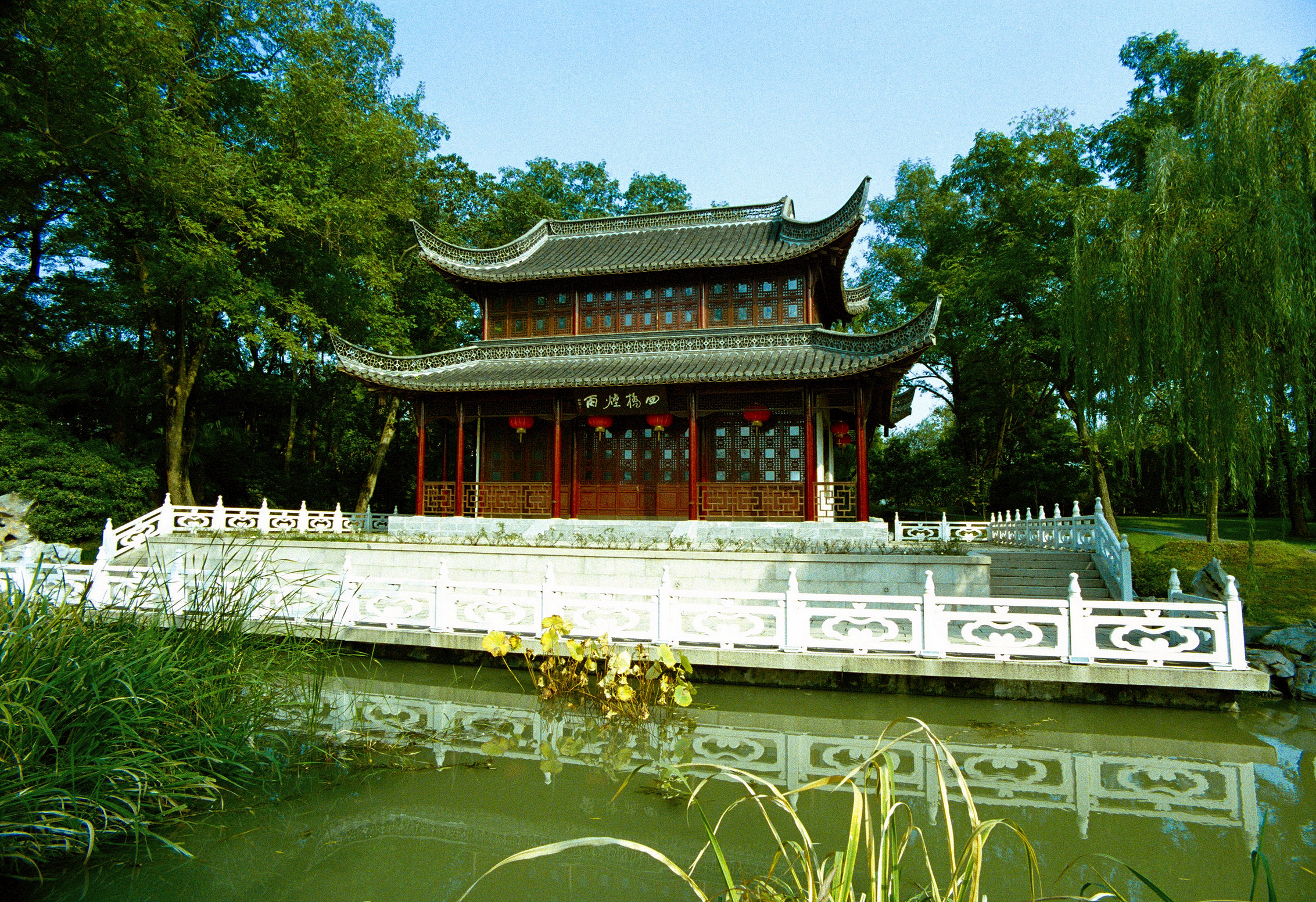 Si Qiao Yan Yu building on the Thin West Lake — 扬州瘦西湖四桥烟雨楼